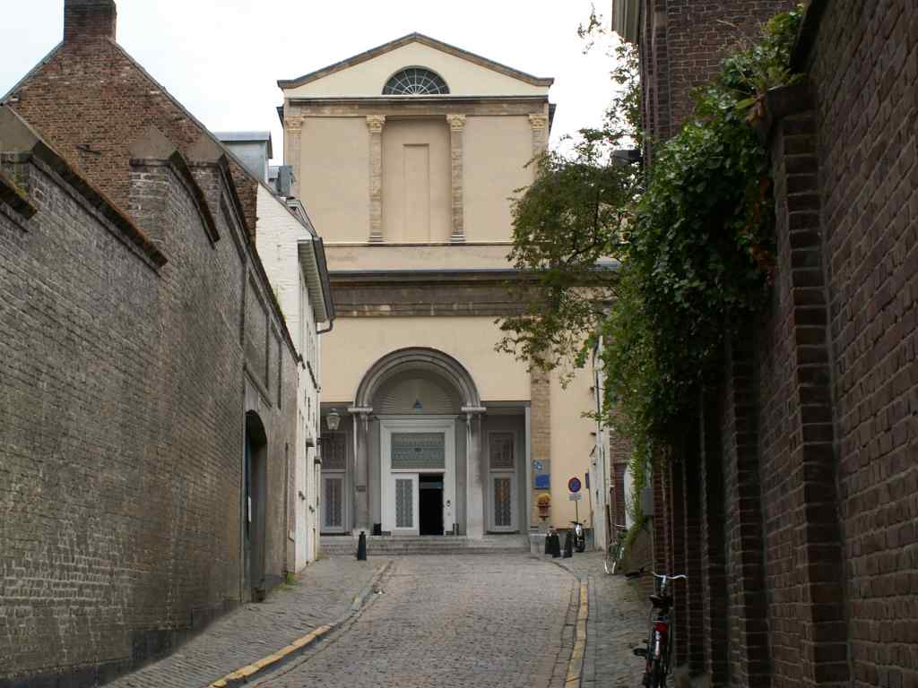 Minderbroedersberg 6a, University building, Maastricht